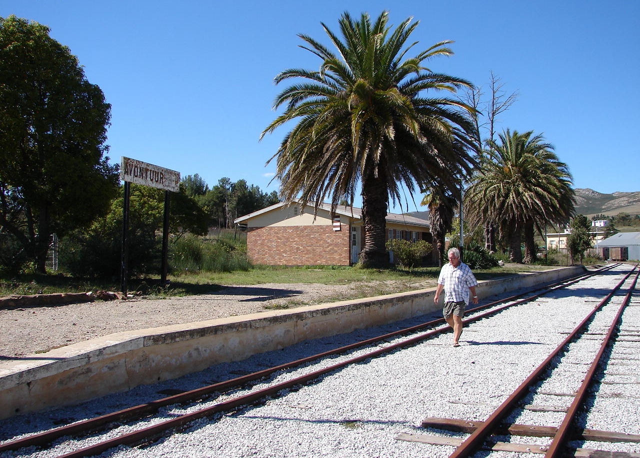 Avontuur station, Western Cape (with Mr. Neville Worth)